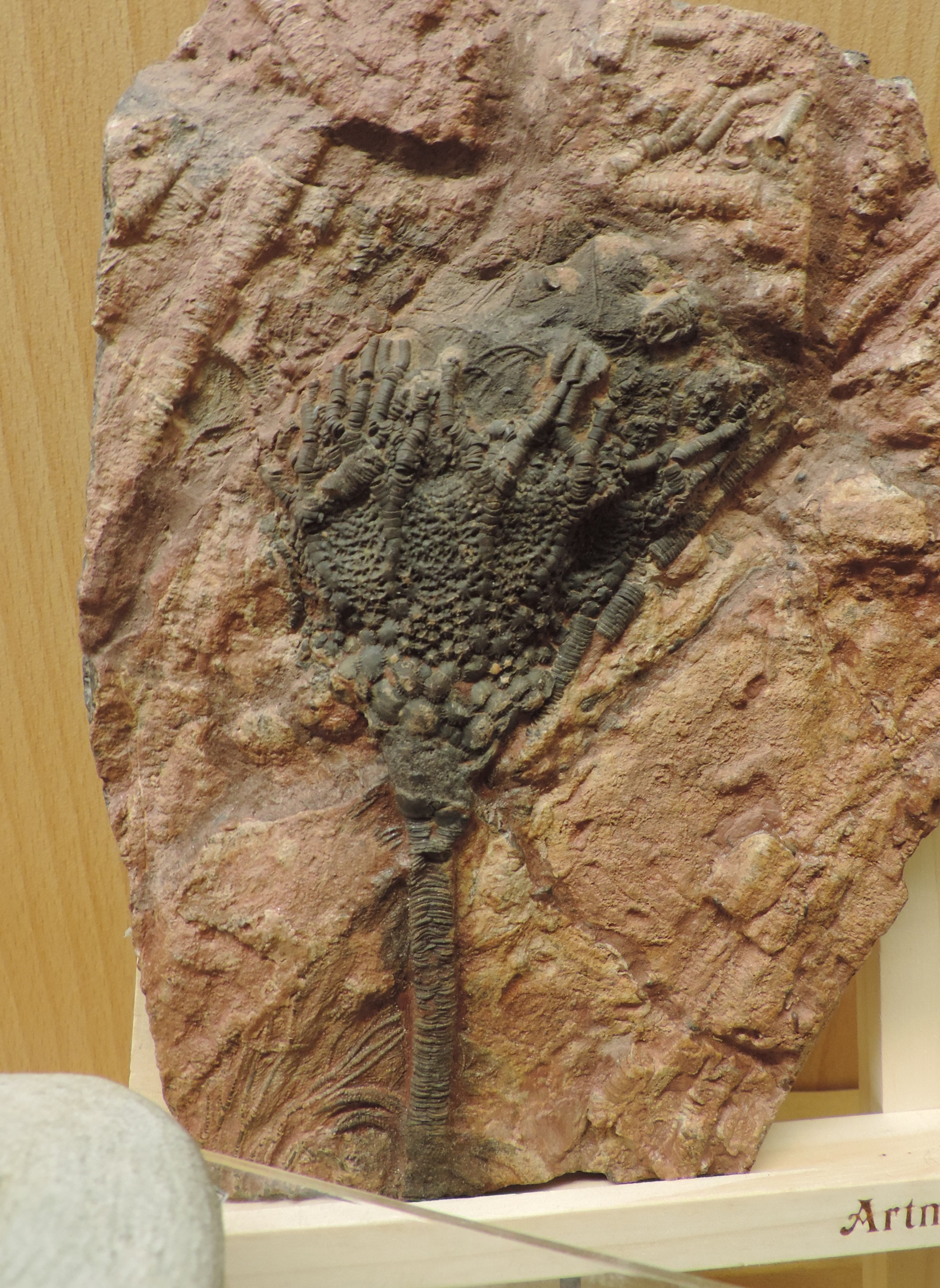 Fossil of Scyphocrinites from Silurian, found in Morocco. Fossil exhibition of "Paleontology for amateurs in Bulgaria" in the Regional Museum of Natural History in Plovdiv, Bulgaria.